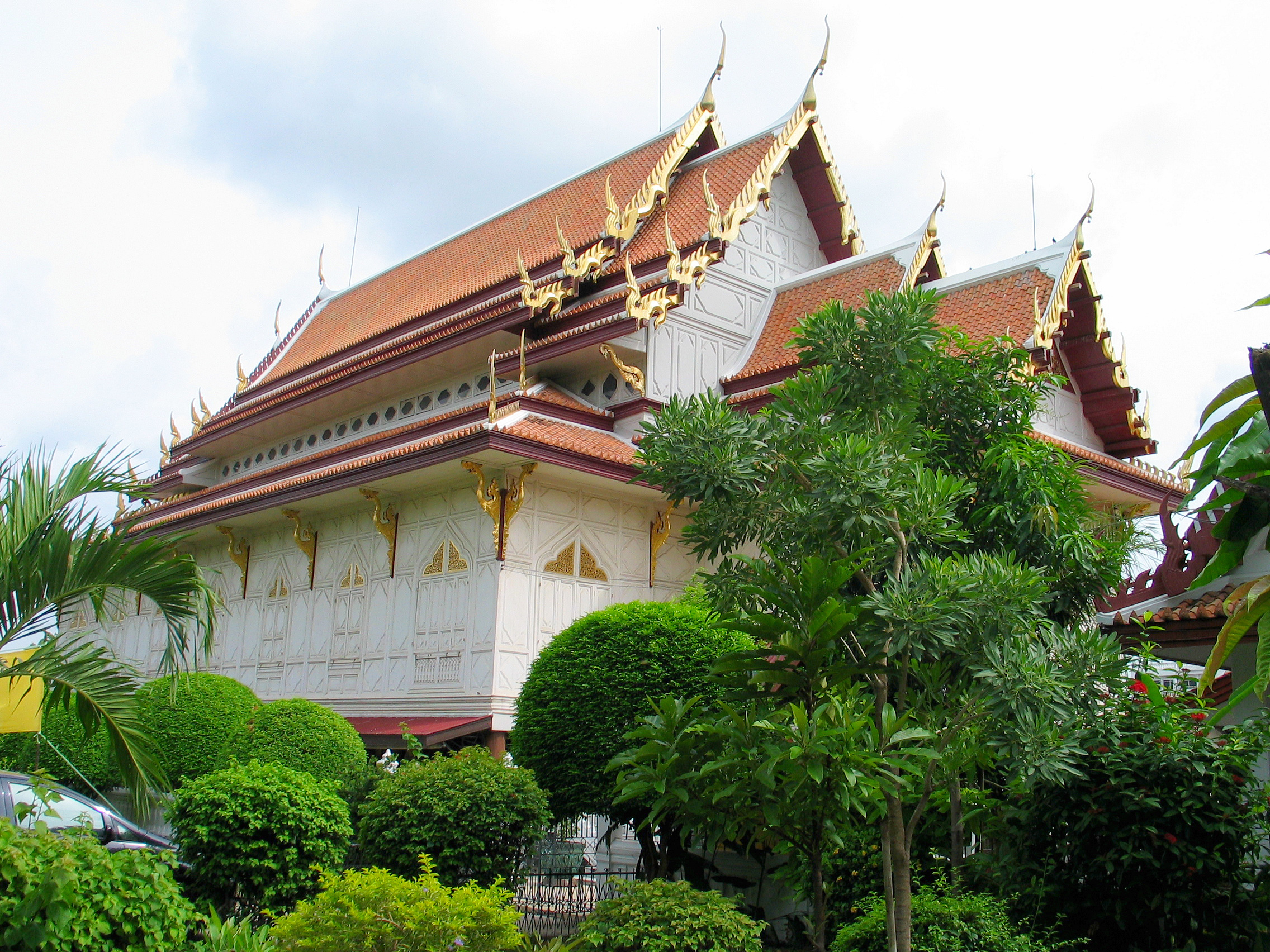 Wat Ratchathiwat, Bangkok, Thailand